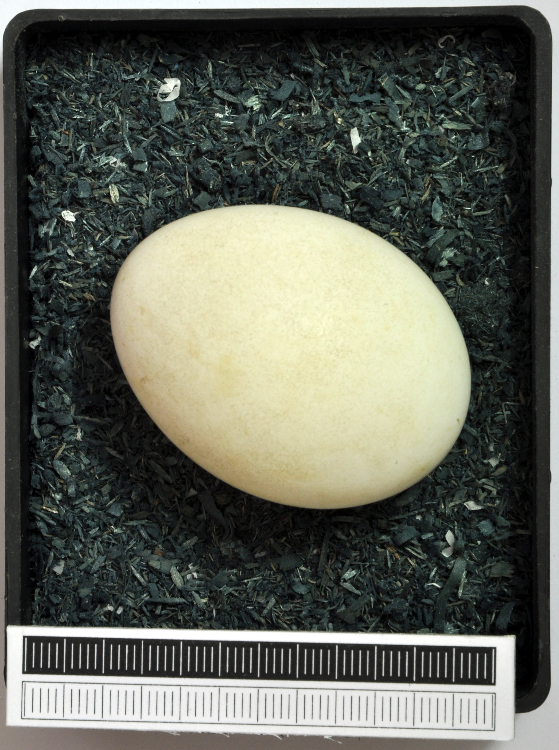 Western marsh harrier Circus aeruginosus, egg, Coll. Museum Wiesbaden, Origin: Northeim-Denkershausen, Germany, 1968, leg. W. Abelmann